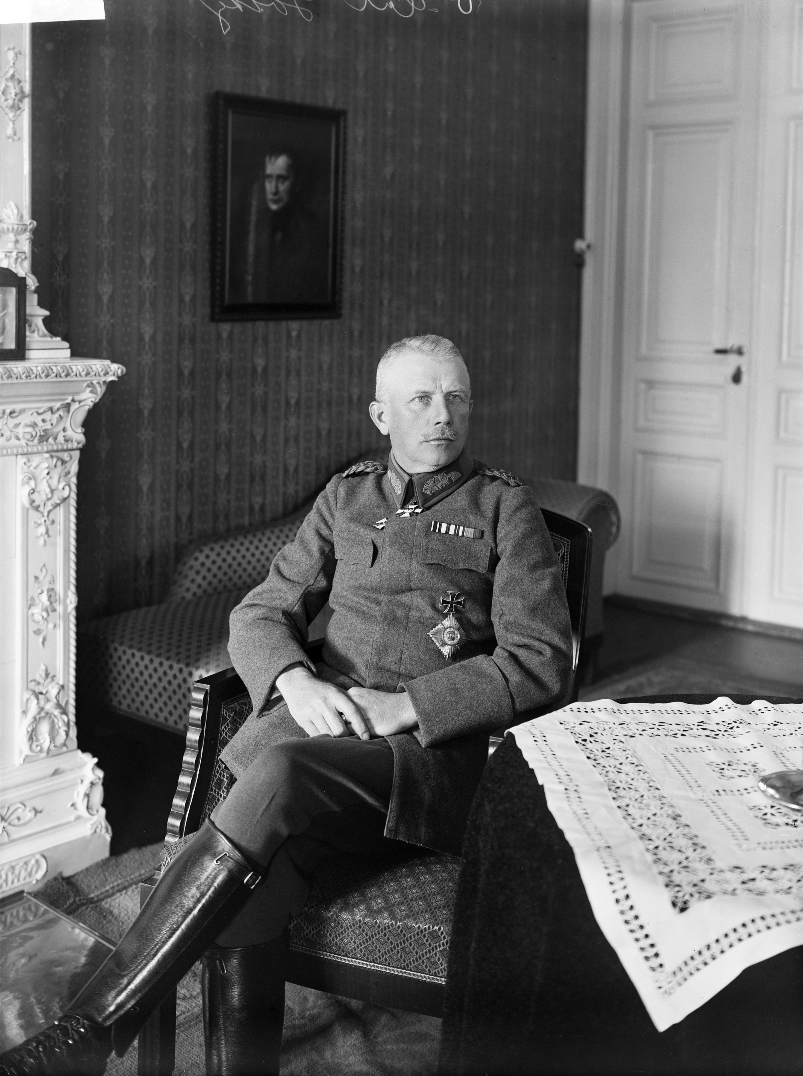 General Rüdiger von der Goltz in Helsinki.